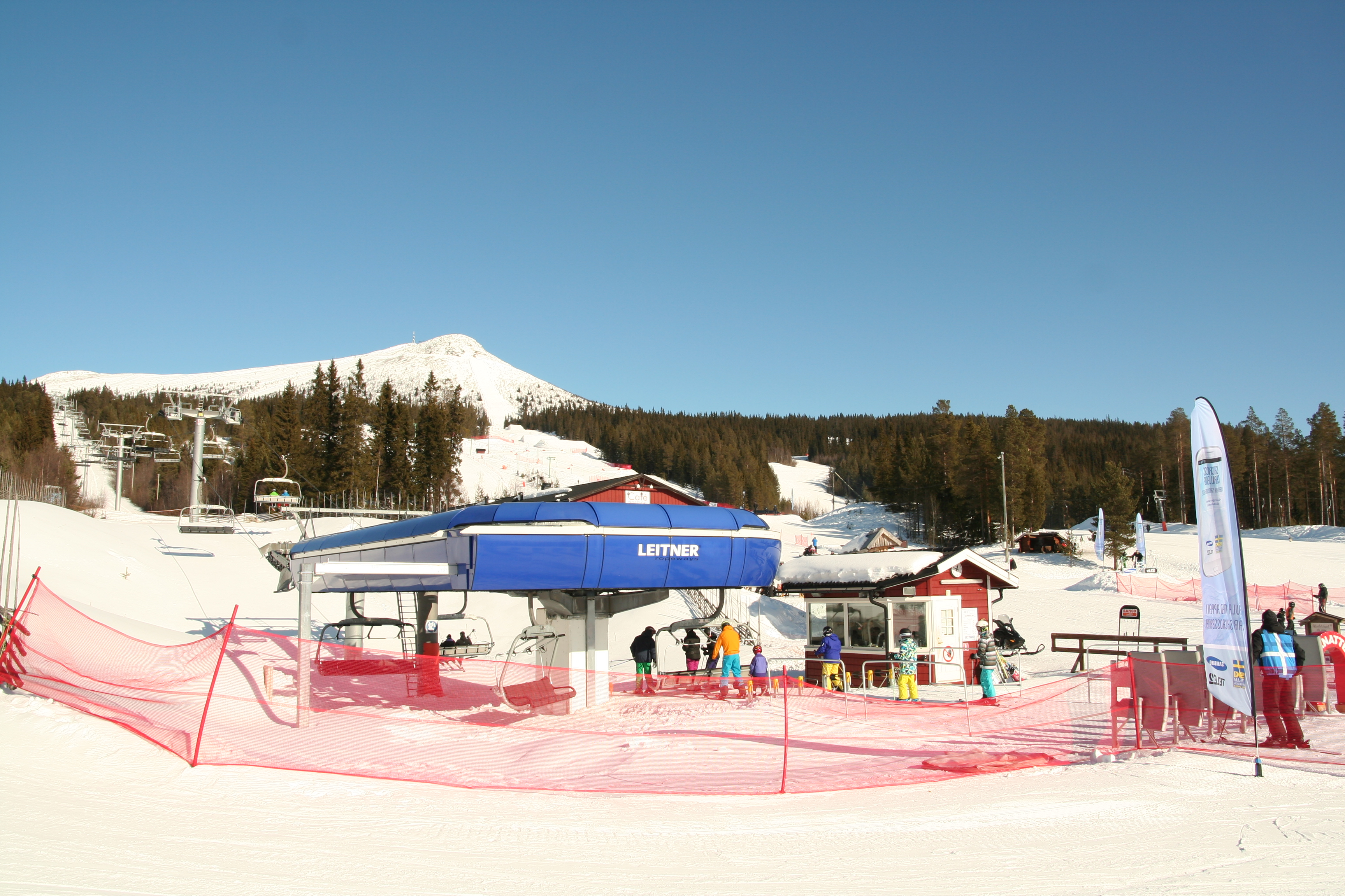 The valley station of the chairlift Lången Express in Lofsdalen in Sweden.